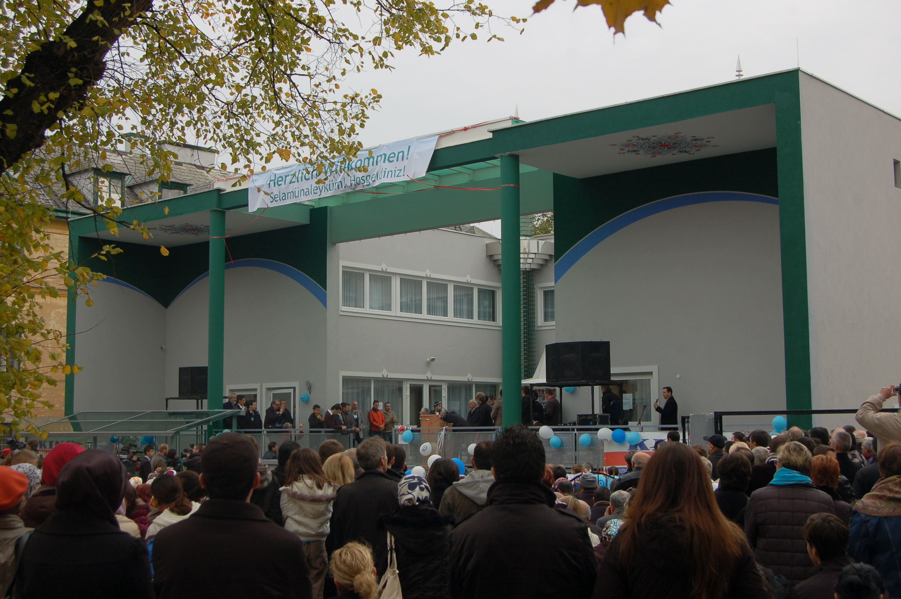 Islamic Cultural Centre with mosque at Bad Voeslau, Lower Austria, on opening day (October 24, 2009)